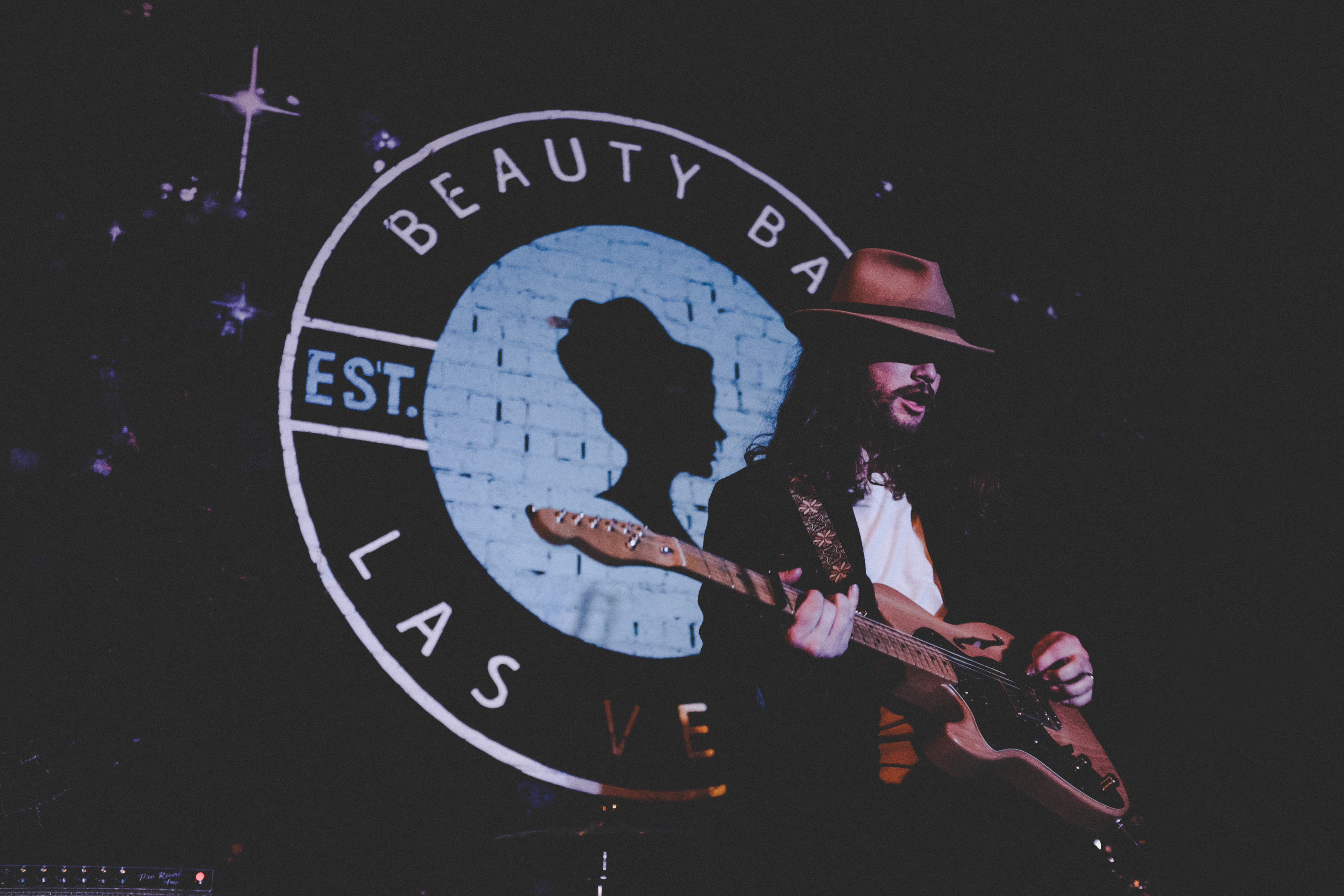 Beauty Bar Las Vegas, Las Vegas, United States